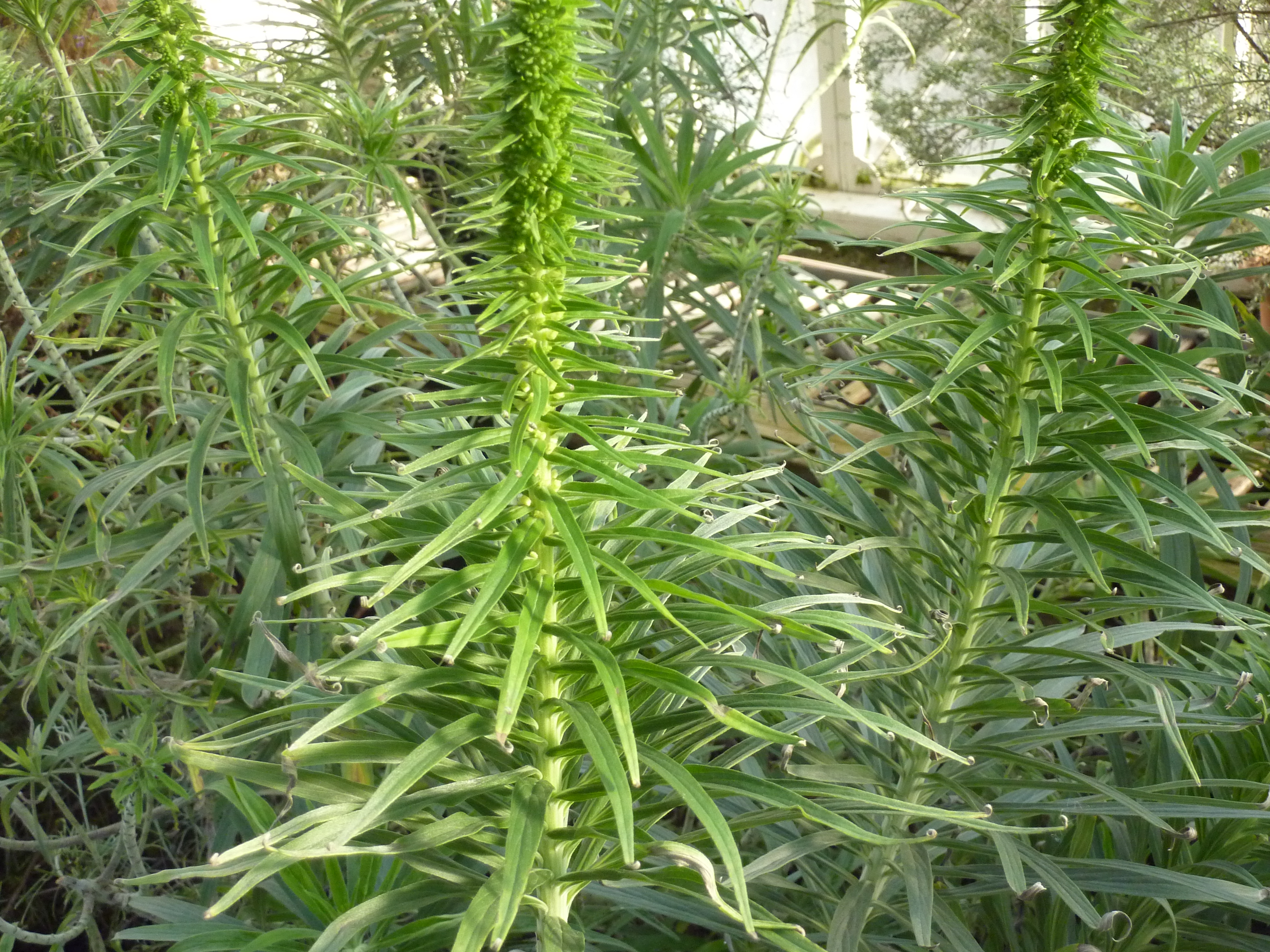 Echium virescens in the Botanical Garden, Berlin